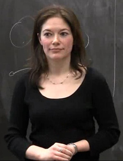 Maria Chudnovksky giving a talk at Rutgers University in 2011.